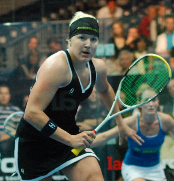 Kasey Brown playing squash in 2009